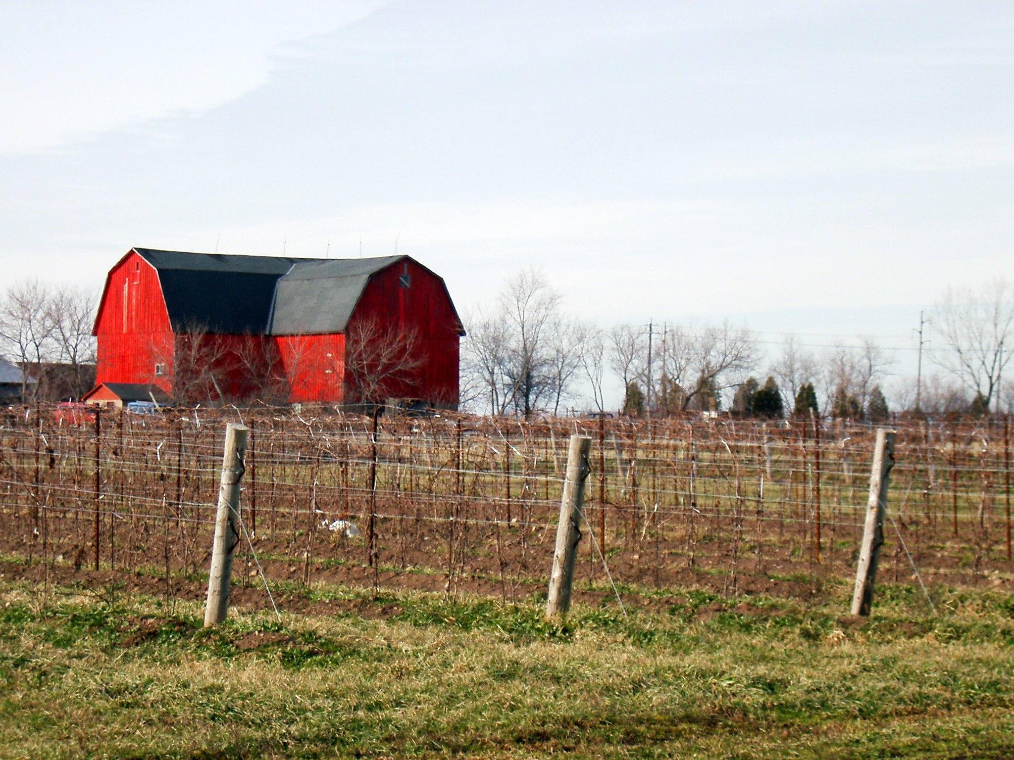 A vineyard in the Canadian wine region of Niagara, Ontario in late January.